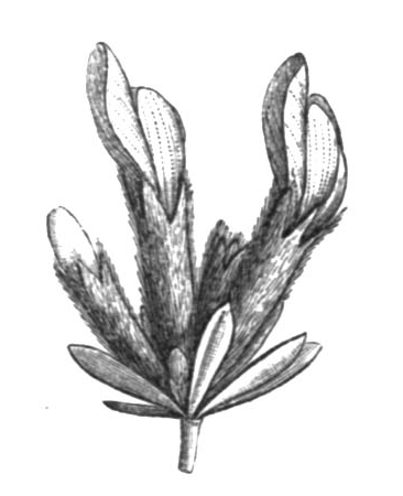 Illustration from book